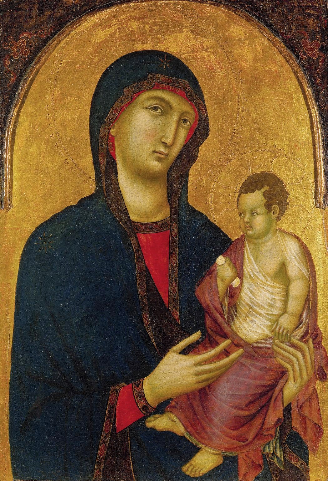 Master of Citta di Castello, Vadonna and Child, 1300-1350, Detroit Institute of Art